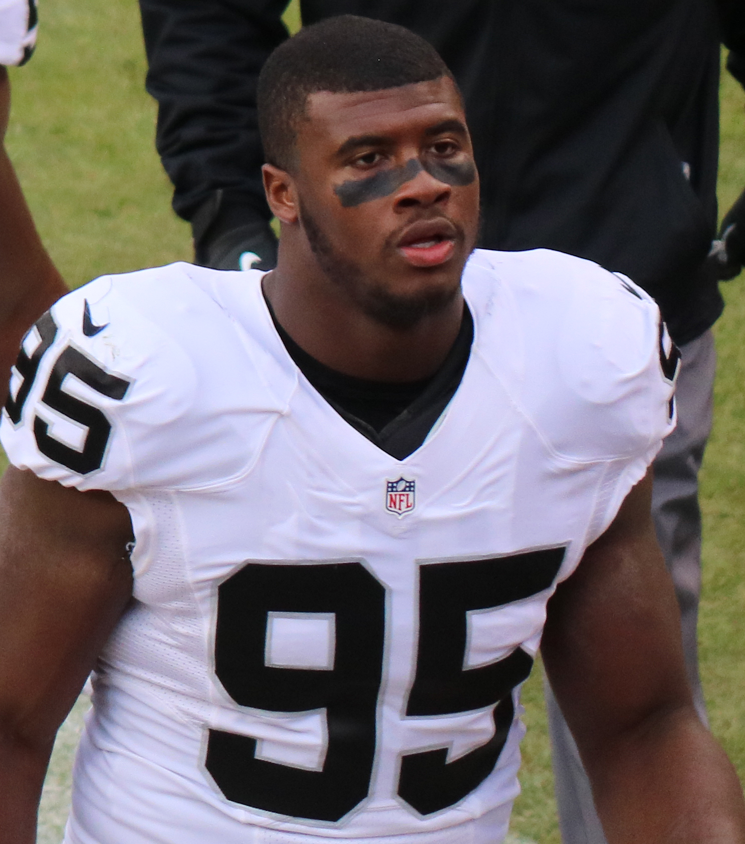 Jihad Ward, a player on the National Football League.